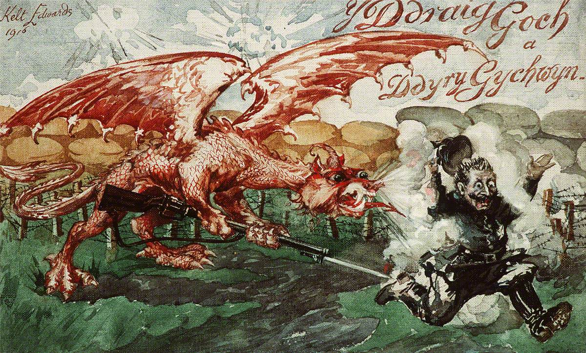 A painting from the Framed Works of Art collection at the National Library of wales.